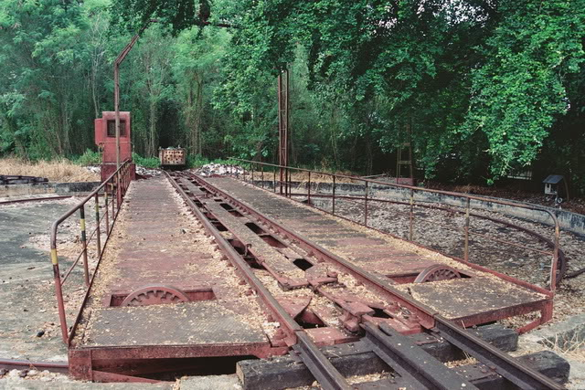 Railroad turntable in Hatyai, Thailand